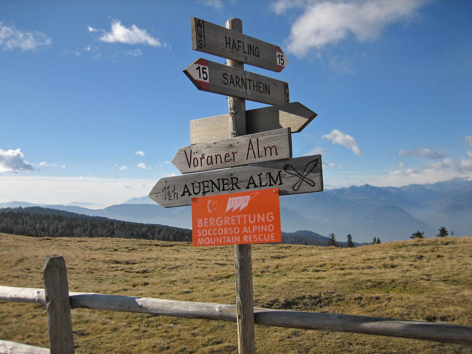 Alpenverein Südtirol signposts on the Tschögglberg mountain (Vöran) - South Tyrol